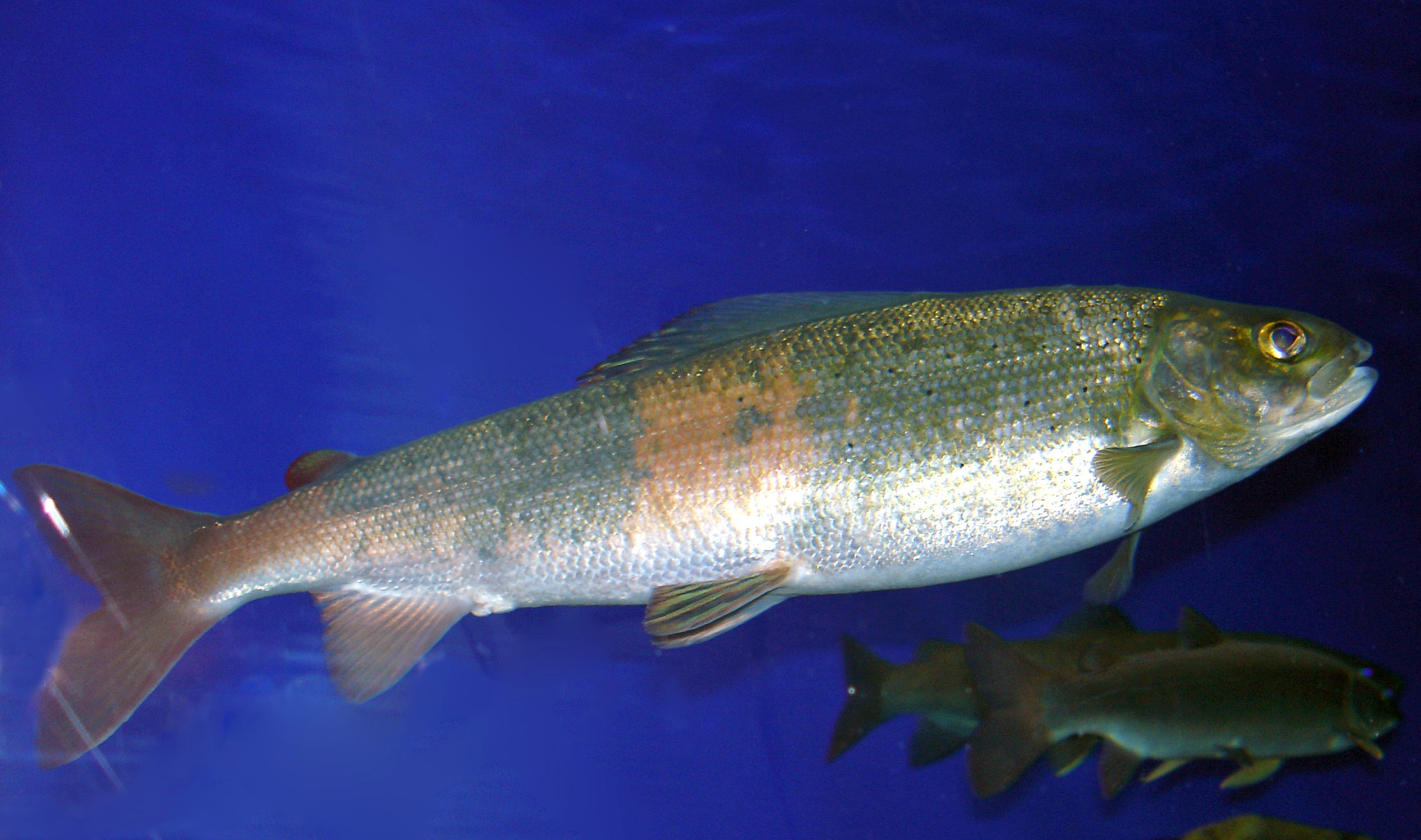 Baikal grayling (Thymallus baikalensis Dybowski, 1874) in an aquarium of the Baikal-Museum in Listvyanka, Irkutsk Oblast